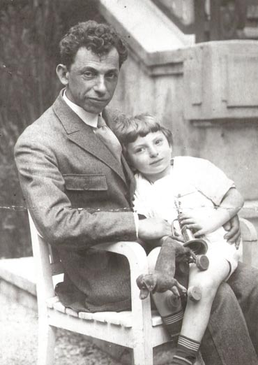 דוד ברגלסון עם בנו לוי